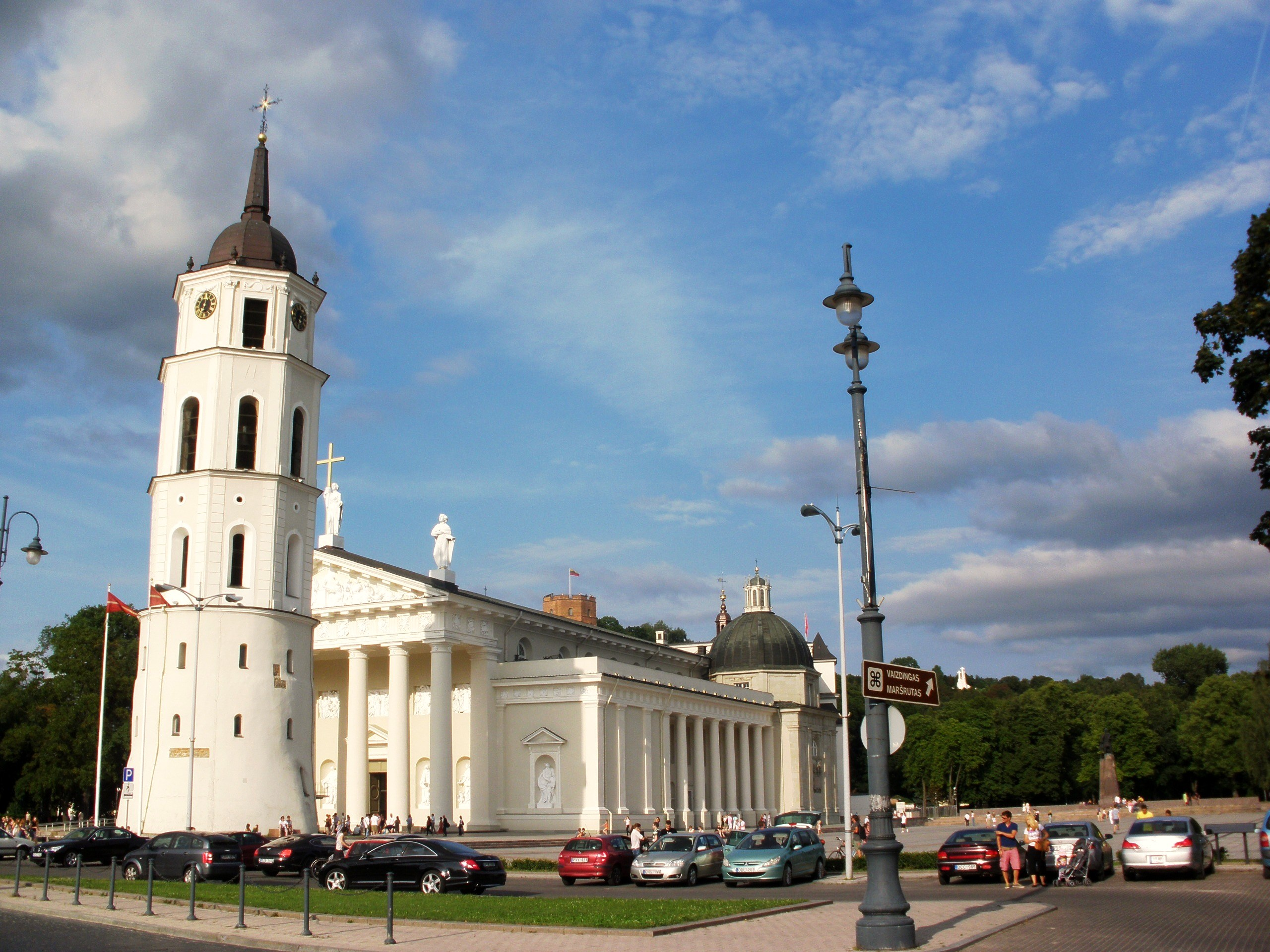 Vilnius Cathedral, Lithuania